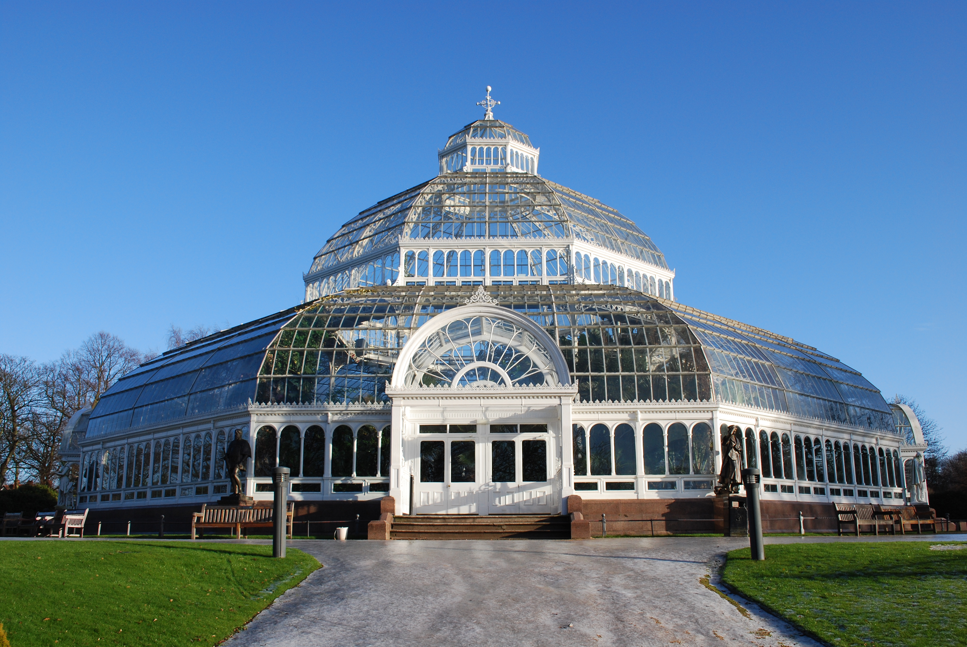 Sefton Park Palm House, Liverpool, England.